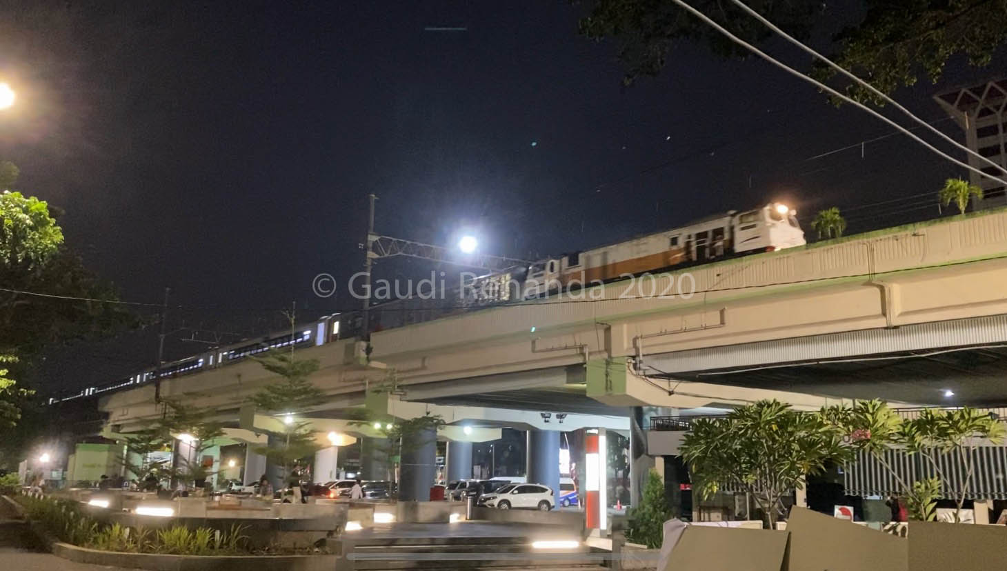 Sembrani New Normal arriving at Gambir Station